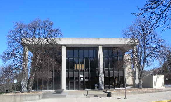 Looking north at the Mt Lebanon High School Fine Arts Theater on a sunny morning.